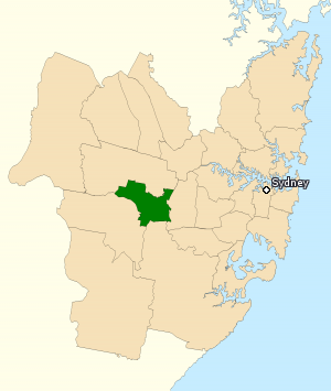 Incorporates or developed using Administrative Boundaries ©PSMA Australia Limited licensed by the Commonwealth of Australia under Creative Commons Attribution 4.0 International licence (CC BY 4.0). Derived from State and Territory Boundaries from the Australian Bureau of Statistics under Creative Commons Attribution 2.5 Australia license (CC BY 2.5 AU)